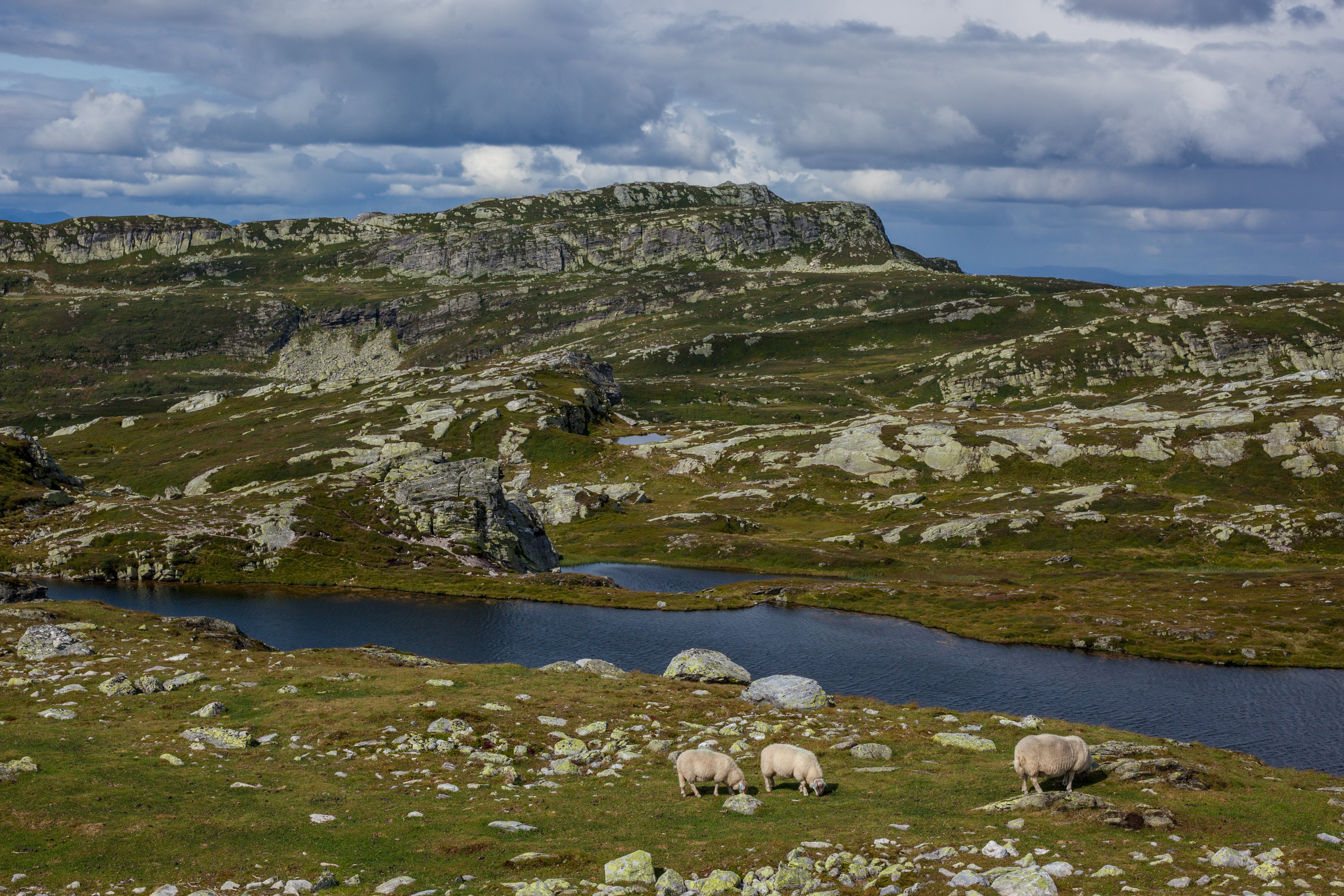 View at hill Øysteinnatten and Sleivtjønn lake in Lifjell mountain plateau in Bø municipality, Telemark region, Norway